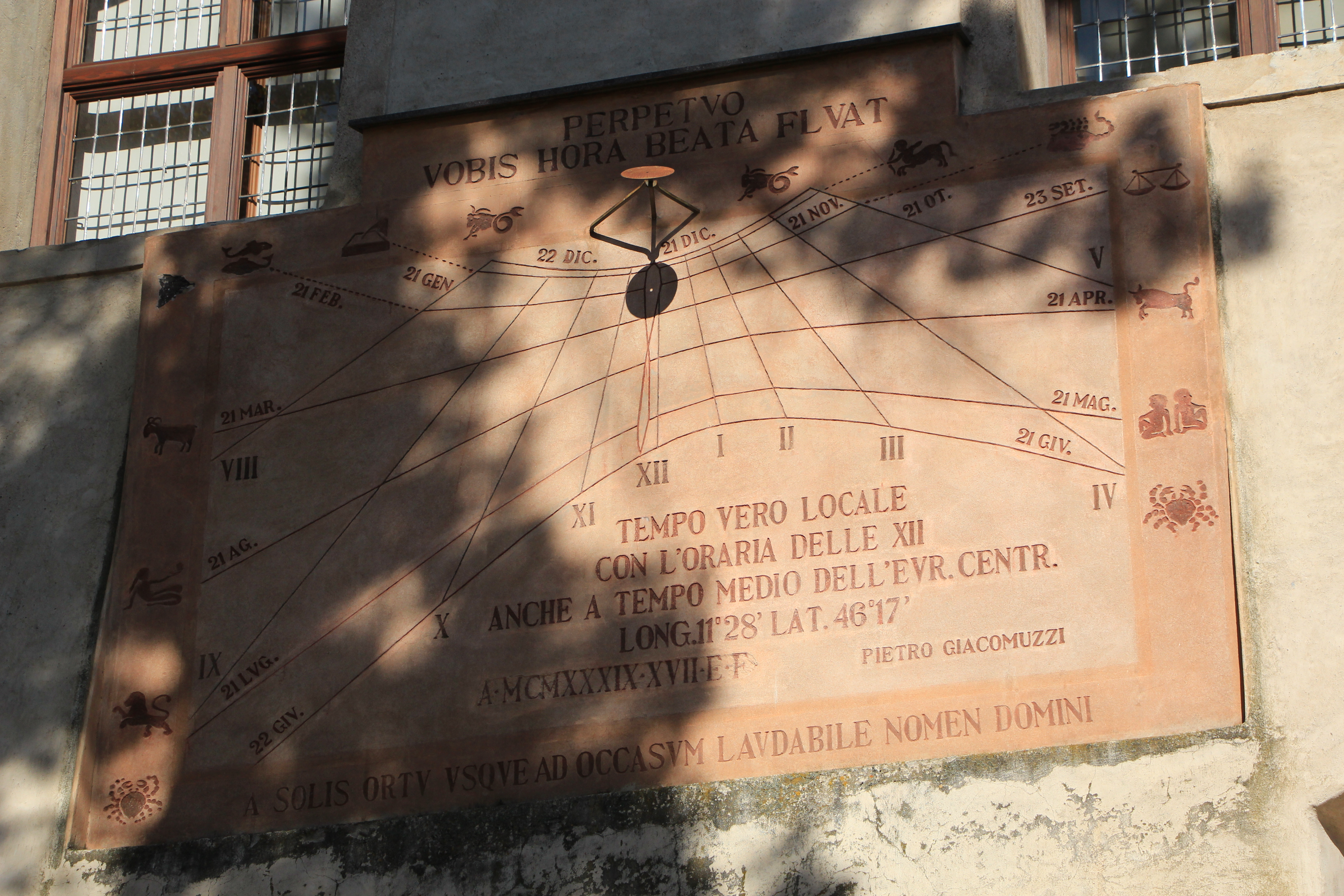 Sundial on the back wall of the town hall in Cavalese. The course of the sun, the signs of the zodiac and the solstices are plotted. Inscriptions: PERPETVO VOBIS HORA BEATA FLVAT TEMP VERO LOCALE CON L'ORARIO DELLE XII ANCHE A TEMPO MEDIO DELL EVR.CENTR. LONG.11°28' LAT.46°17' A MCMXXXIX XVII E F - PIETRO GIACOMUZZI A SOLIS ORTV VSOVE AD OCCASVM LAVDABILE NOMEN DOMINI